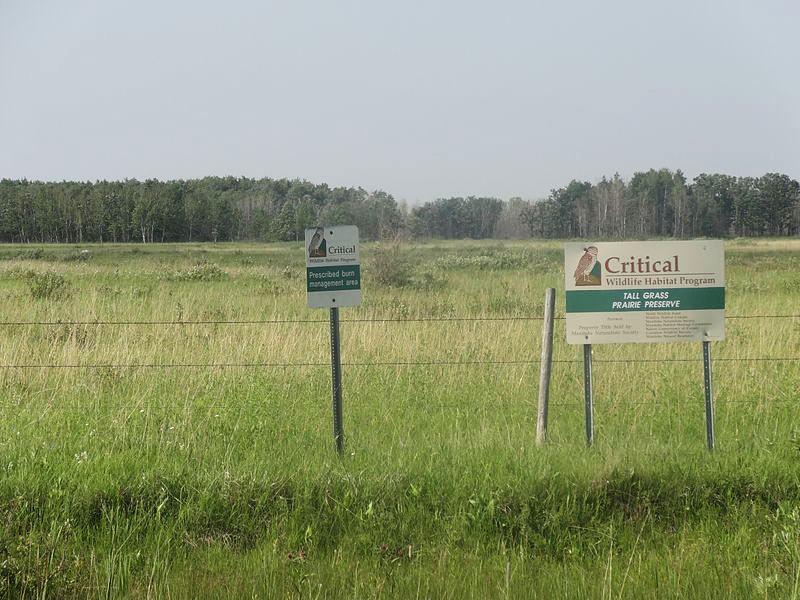 Signage identifying critical habitat in the Tall Grass Prairie Preserve and noting that this section is using prescribed burning as a means of study and preservation.